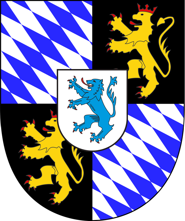 Coat of arms of the duchy of Pfalz-Veldenz, Holy Roman Empire.